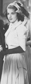 Mireya Zuliani- actriz